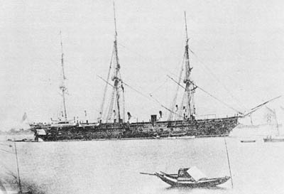 USS Colorado (1856)- USS Colorado in 1871 during the United States Expedition to Korea.